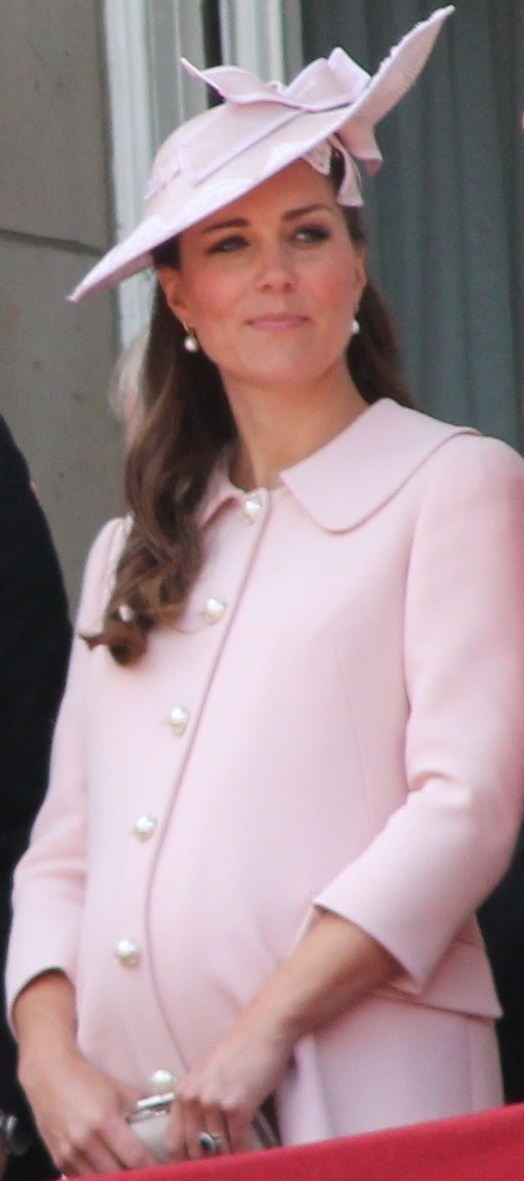 The Duke and Duchess of Cambridge and Prince Harry on the balcony of Buckingham Palace, June 2013